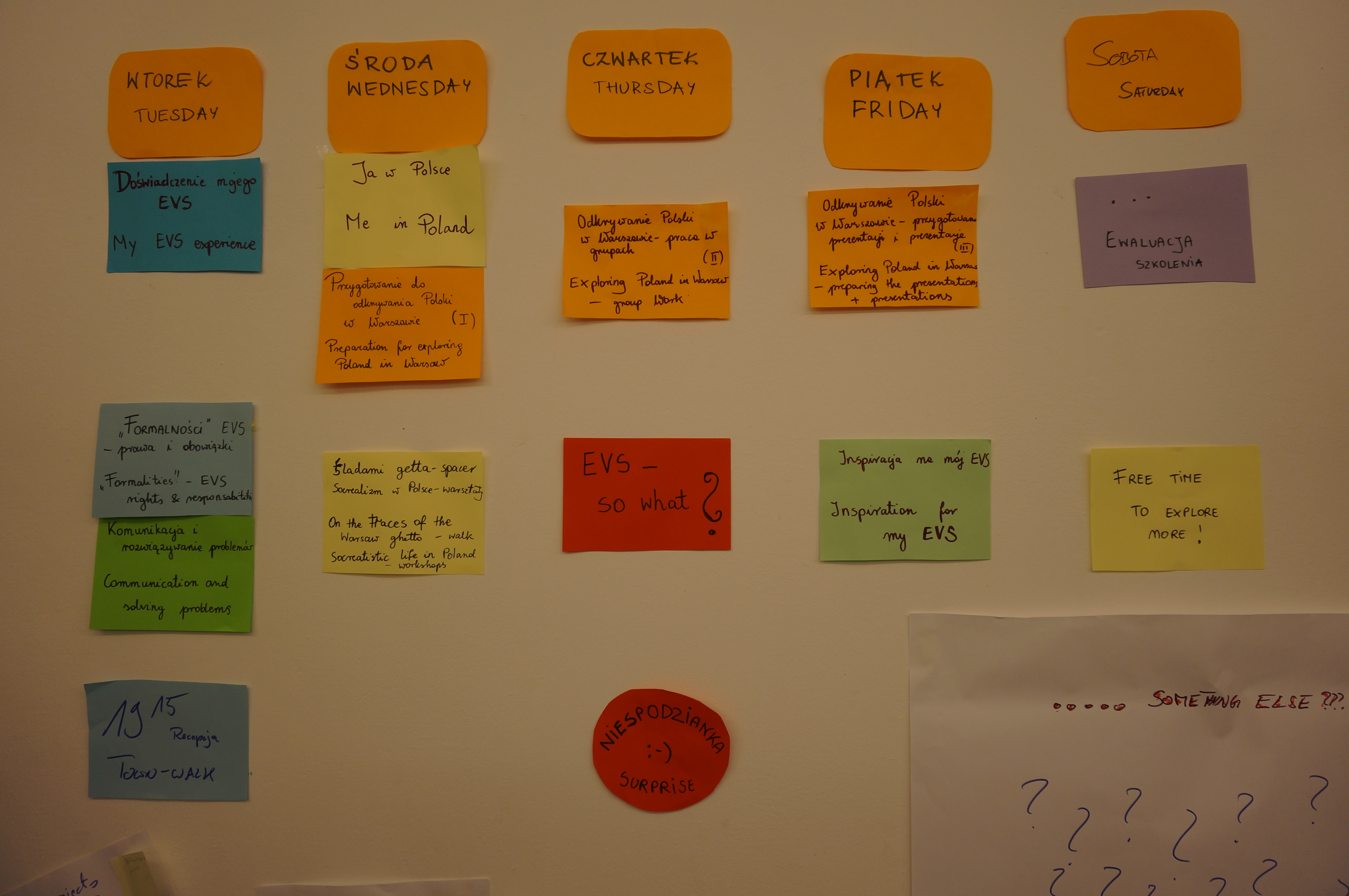 A schedule of an on-arrival training for EVS volunteers in Poland.